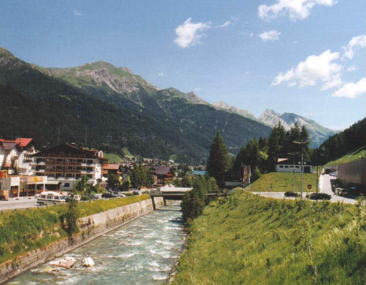 Photo of St. Anton am Arlberg; in the centre is the stream Rosanna, on the right the station